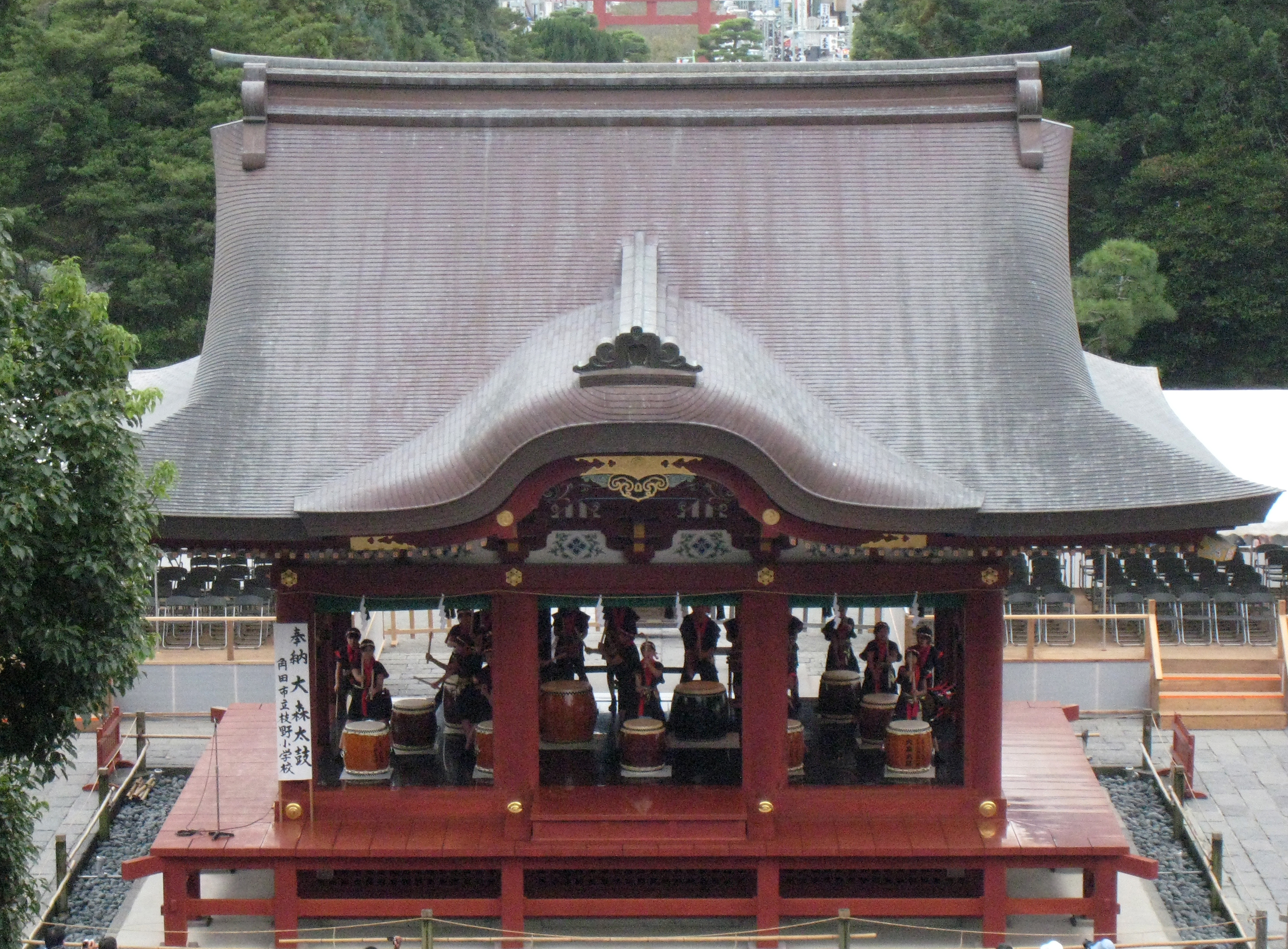 Maiden dancing stage Tsurugaoka Hachiman-gū during a music performance